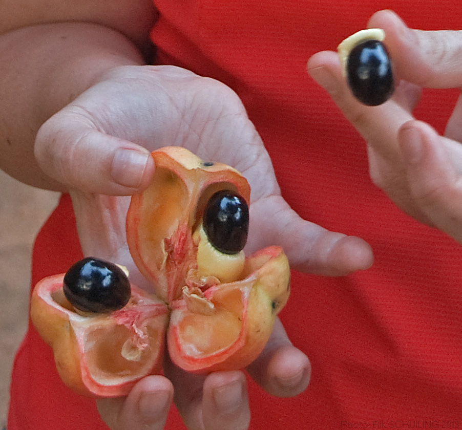 Showing ripe akee fruit and seeds, two of the three seeds with their arils still in place (Bobo-Dioulasso, Burkina Faso nov2013).